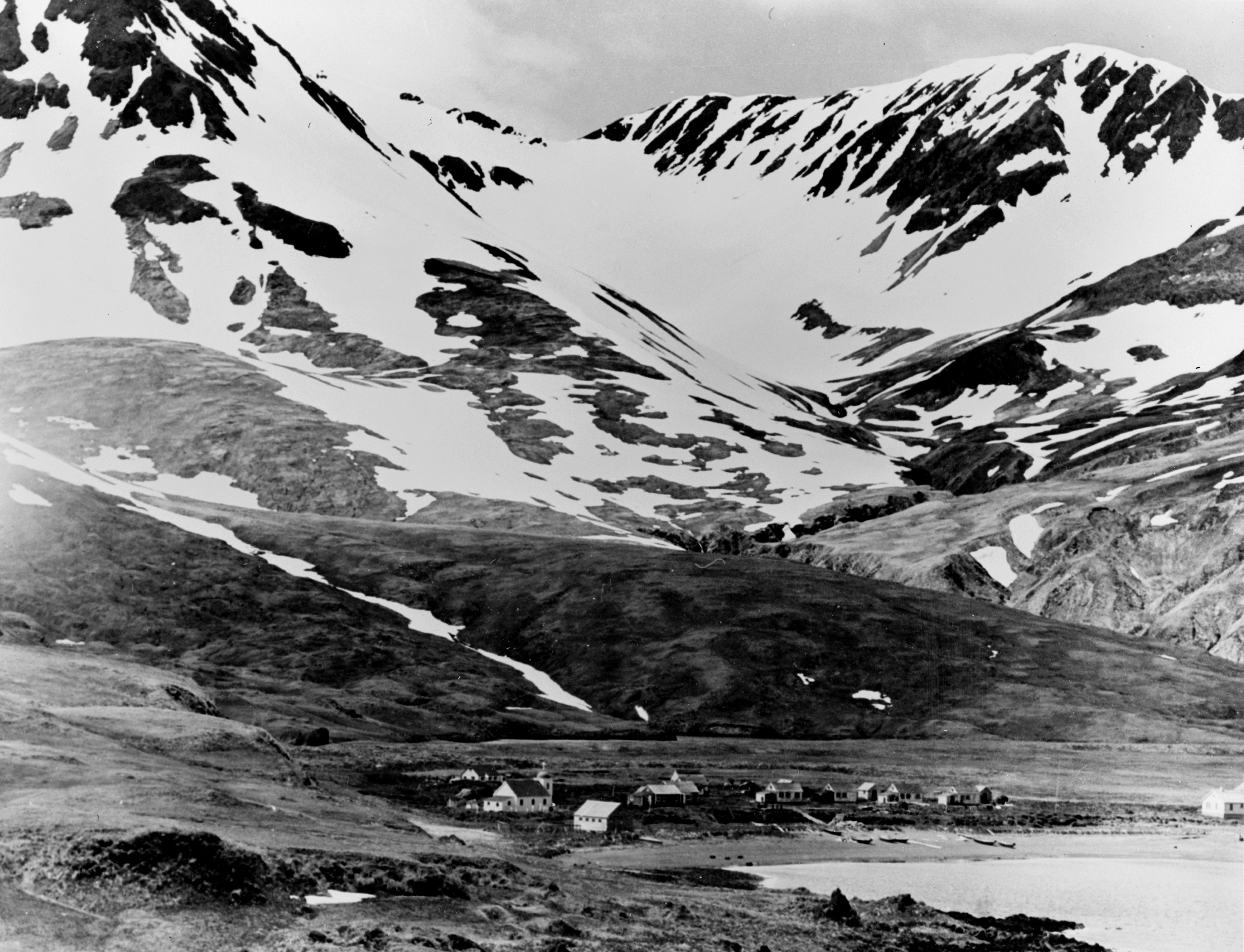 Attu village, Attu island, Alaska (USA), in June 1937.Original caption: "Bleak, mountainous Attu had a population of only about forty people prior to the Japanese invasion. As yet there has been no word as to what happened to these people when the Japanese took over. This is a picture of Attu village situated on Chichagof harbour where much of the recent fighting took place. The tundra, with which the slopes of the hills are covered, may look easy to traverse, but its depth, two or three feet, makes walking difficult and tiring. In June or July, according to experts of the U.S. Fish and Wildlife Service, these slopes will be covered with flowers of which more than 100 different varieties may be found there. 1937 June."